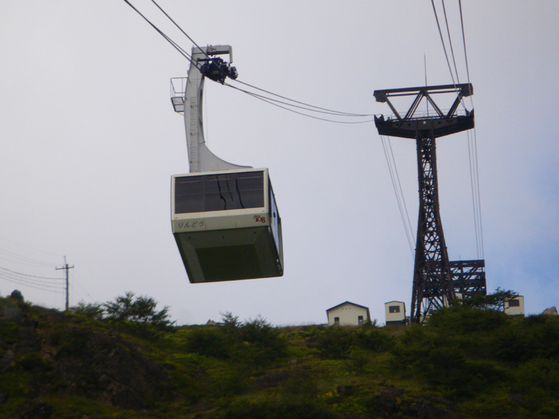 Gondola of Nasu Ropeway in Nasu Town, Tochigi Prefecture, Japan